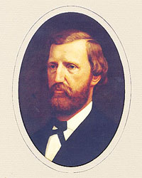 Peter Hansborough Bell, third Governor of the State of Texas.